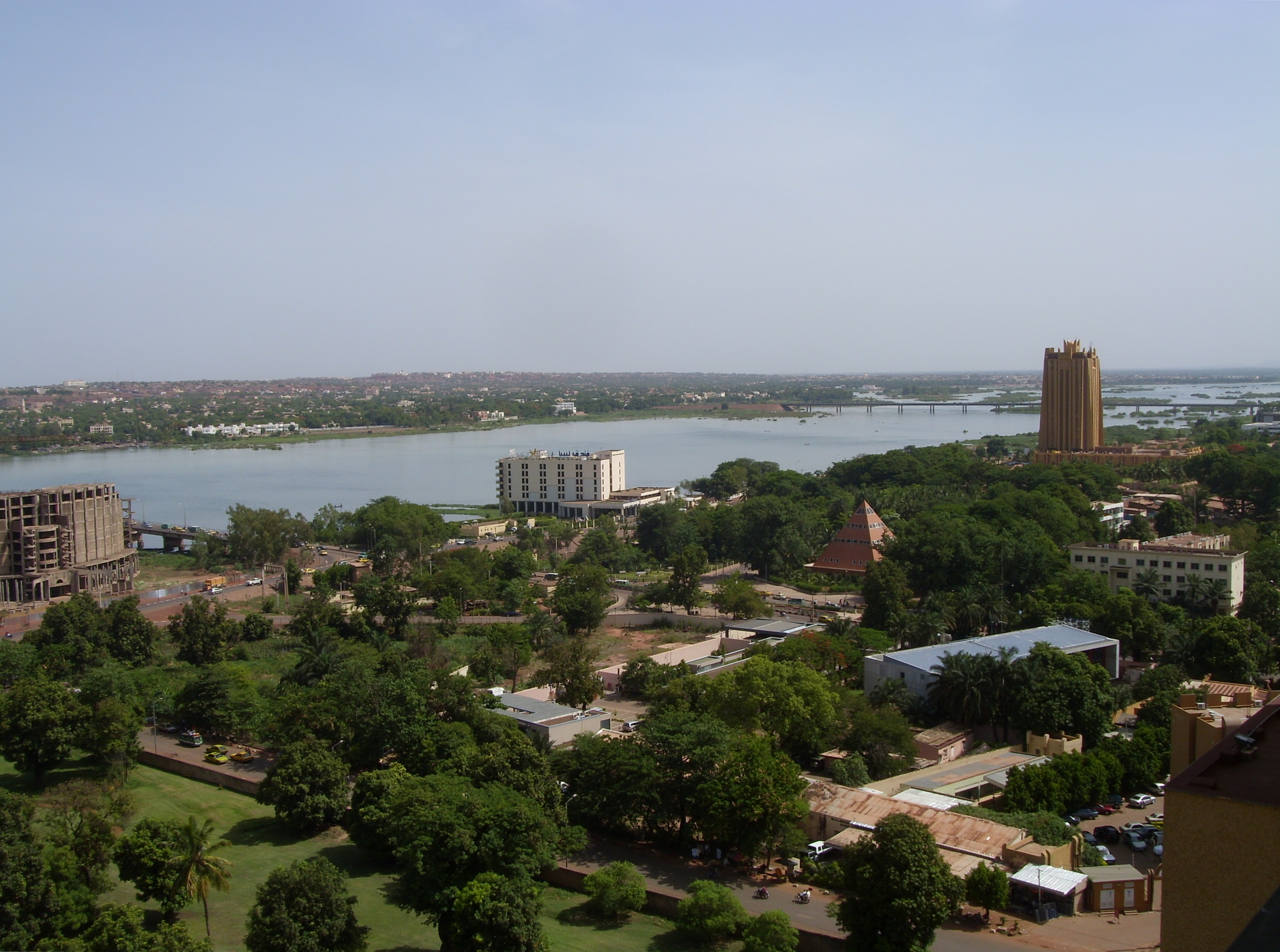 View of Bamako. In the background the Niger with the Pont du roi Fahd.